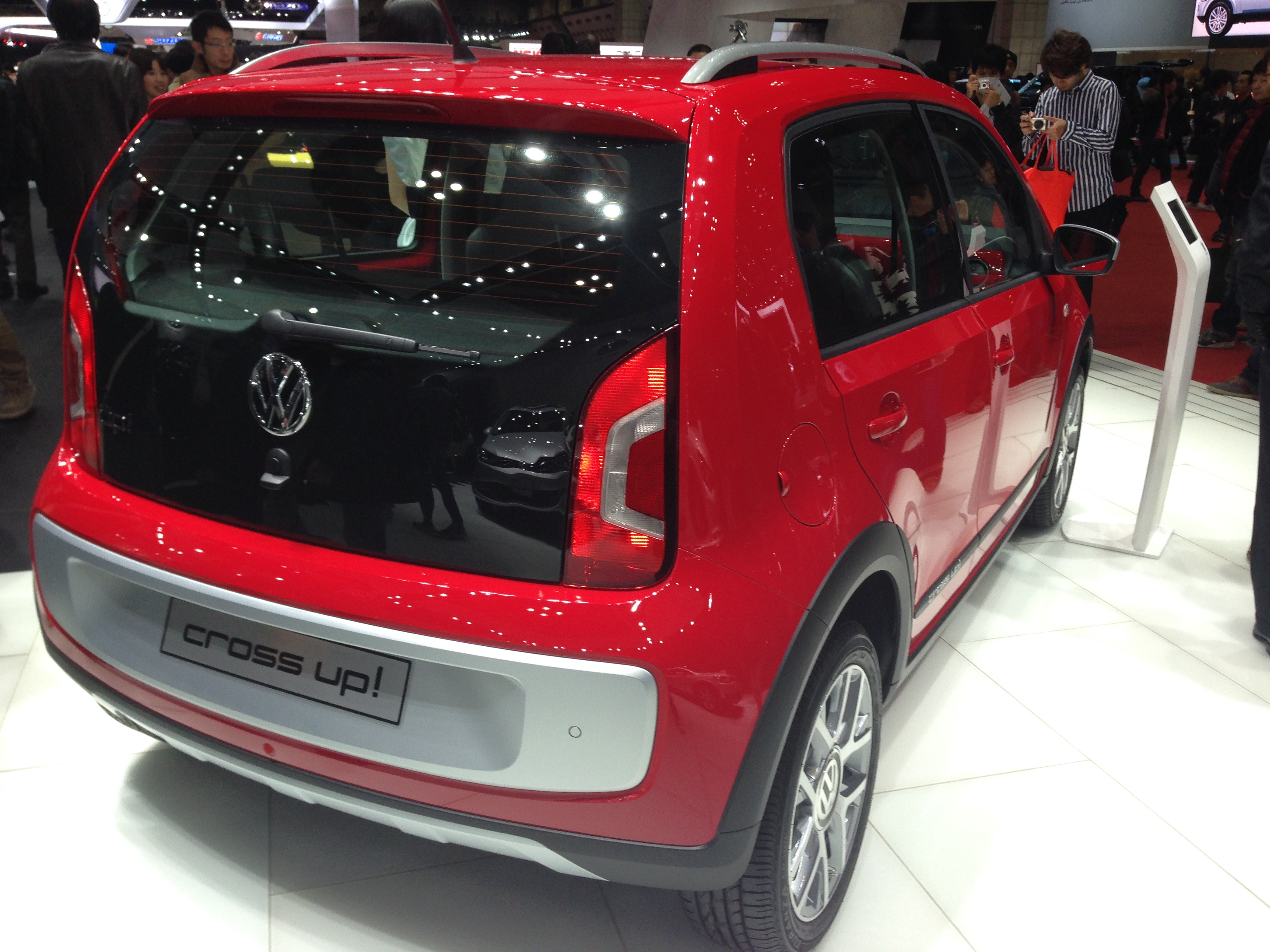 Volkswagen Cross up! photographed at the Tokyo Motor Show 2013.